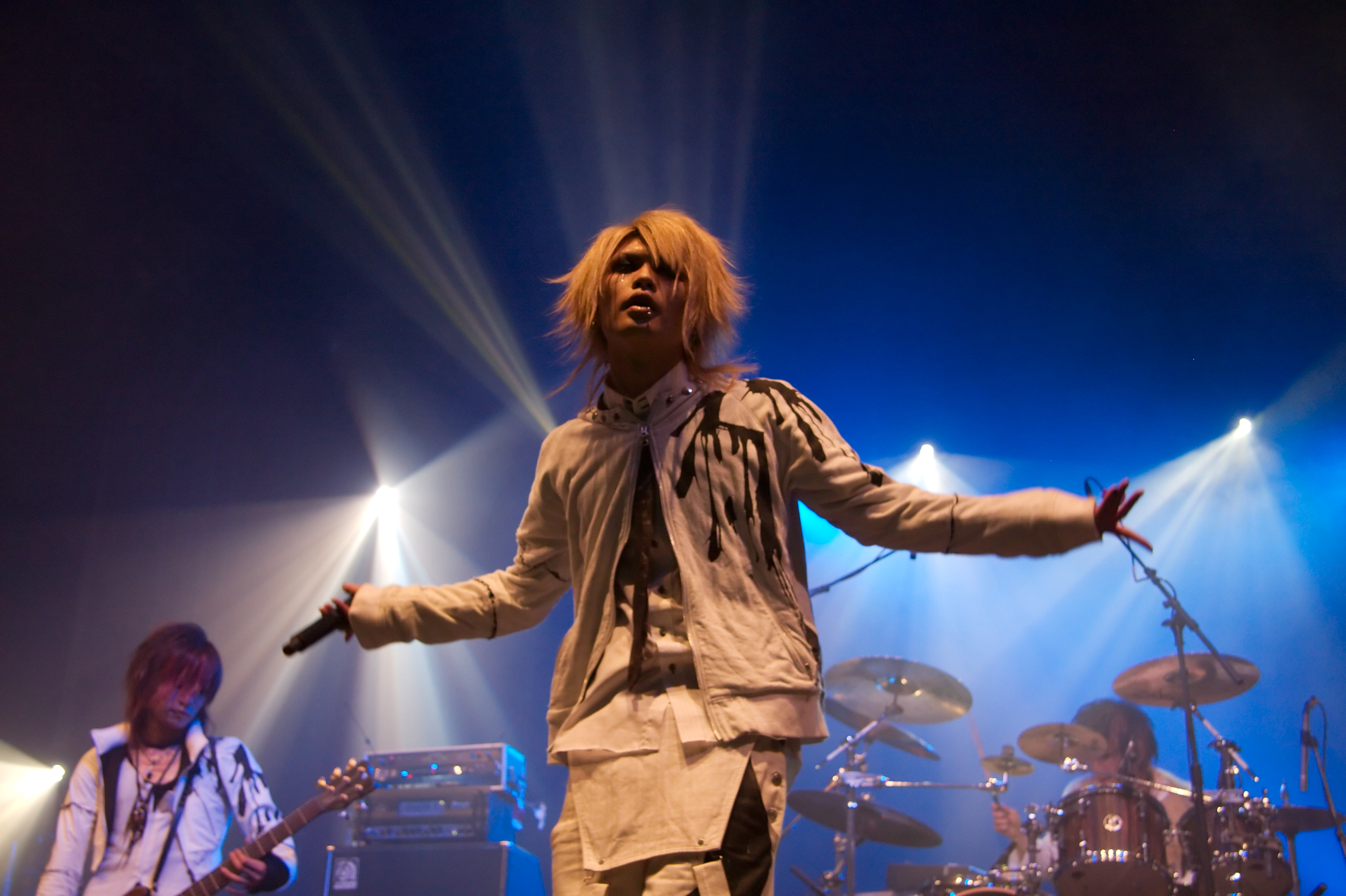 Vistlip live at Japan Expo 2009 (Paris, France).